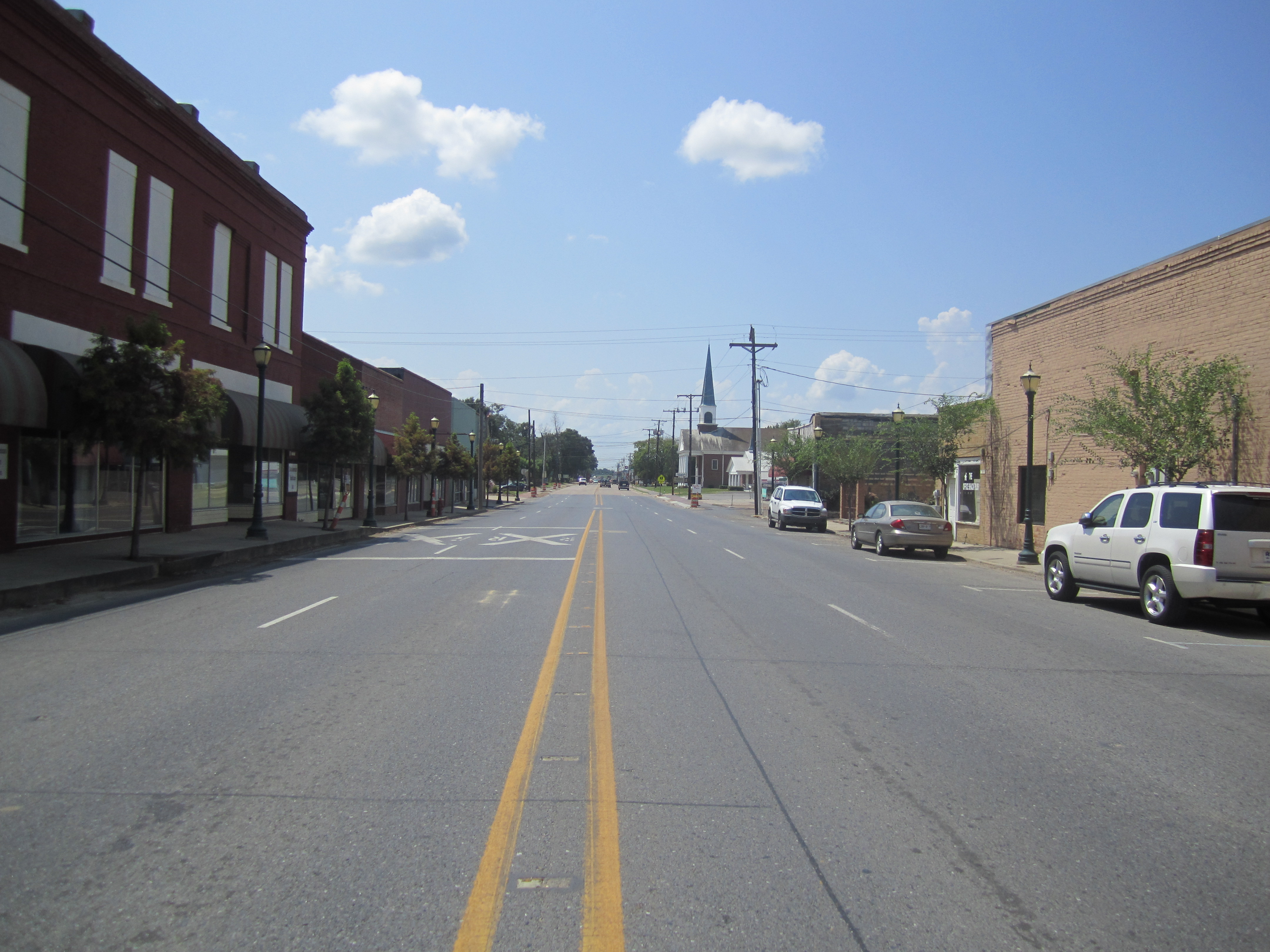 I took photo with Canon camera in Delhi, LA.